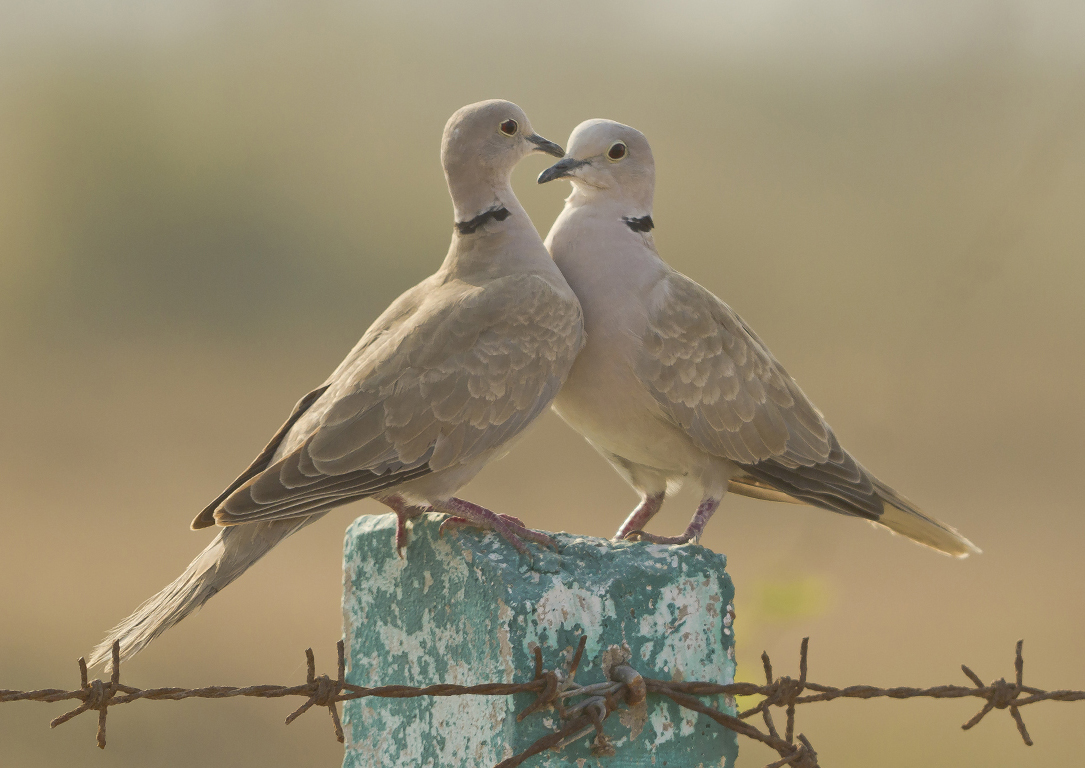 Courtship